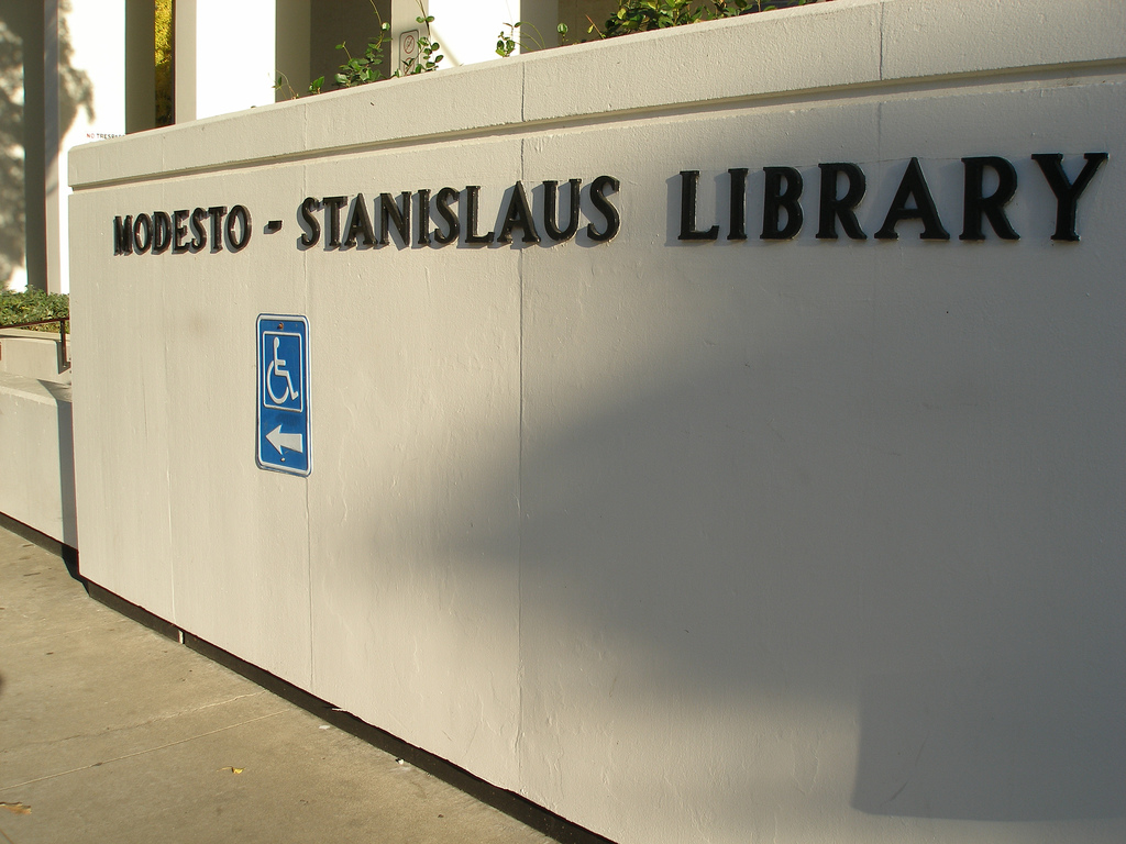 good marketing?